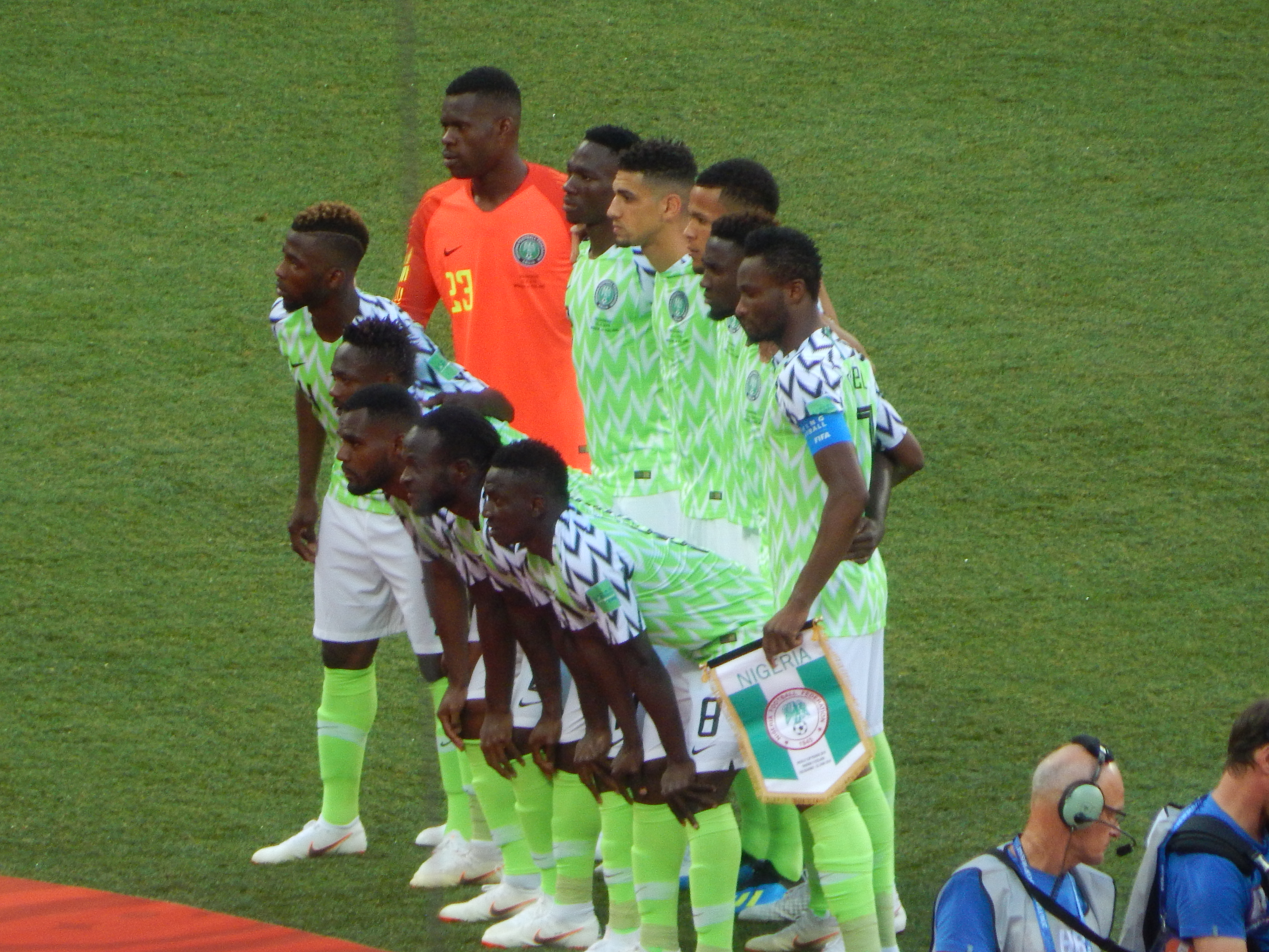 FIFA World Cup 2018, Group D, Nigeria vs. Iceland